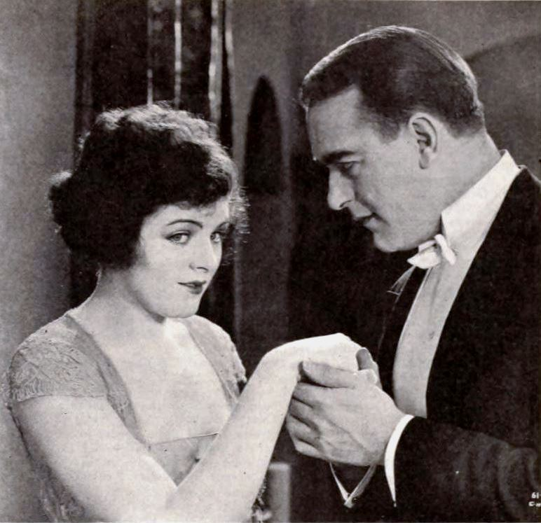 Still from the American drama film The Girl from Nowhere (1921) with Elaine Hammerstein and William B. Davidson, on page 65 of the June 25, 1921 Exhibitors Herald.